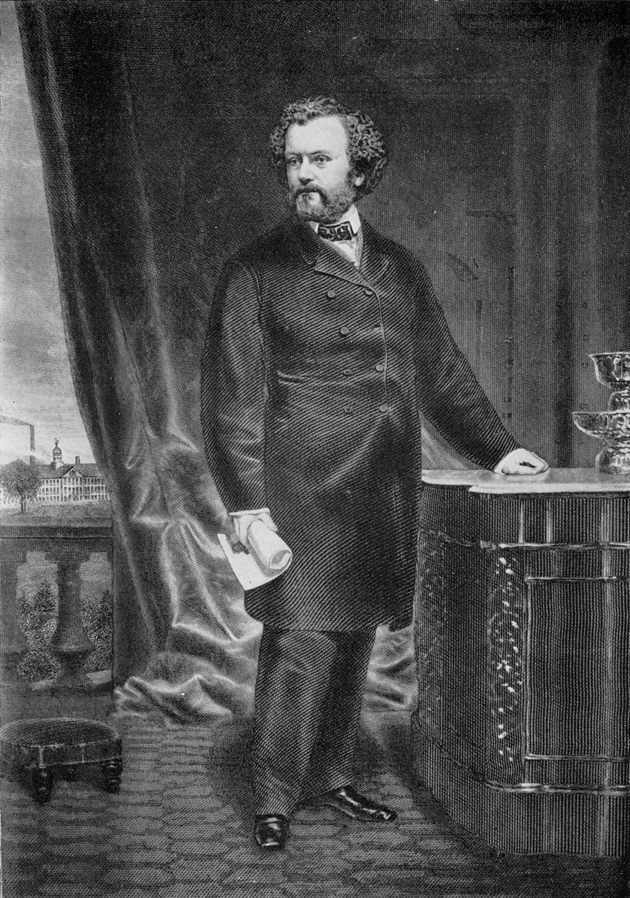 Samuel Colt (1814 – 1862)